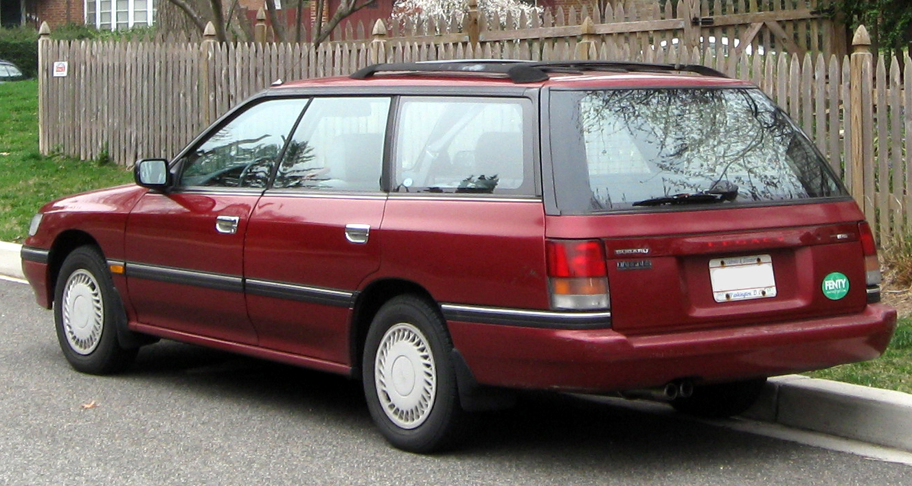 1992-1994 Subaru Legacy photographed in Washington, D.C., USA.